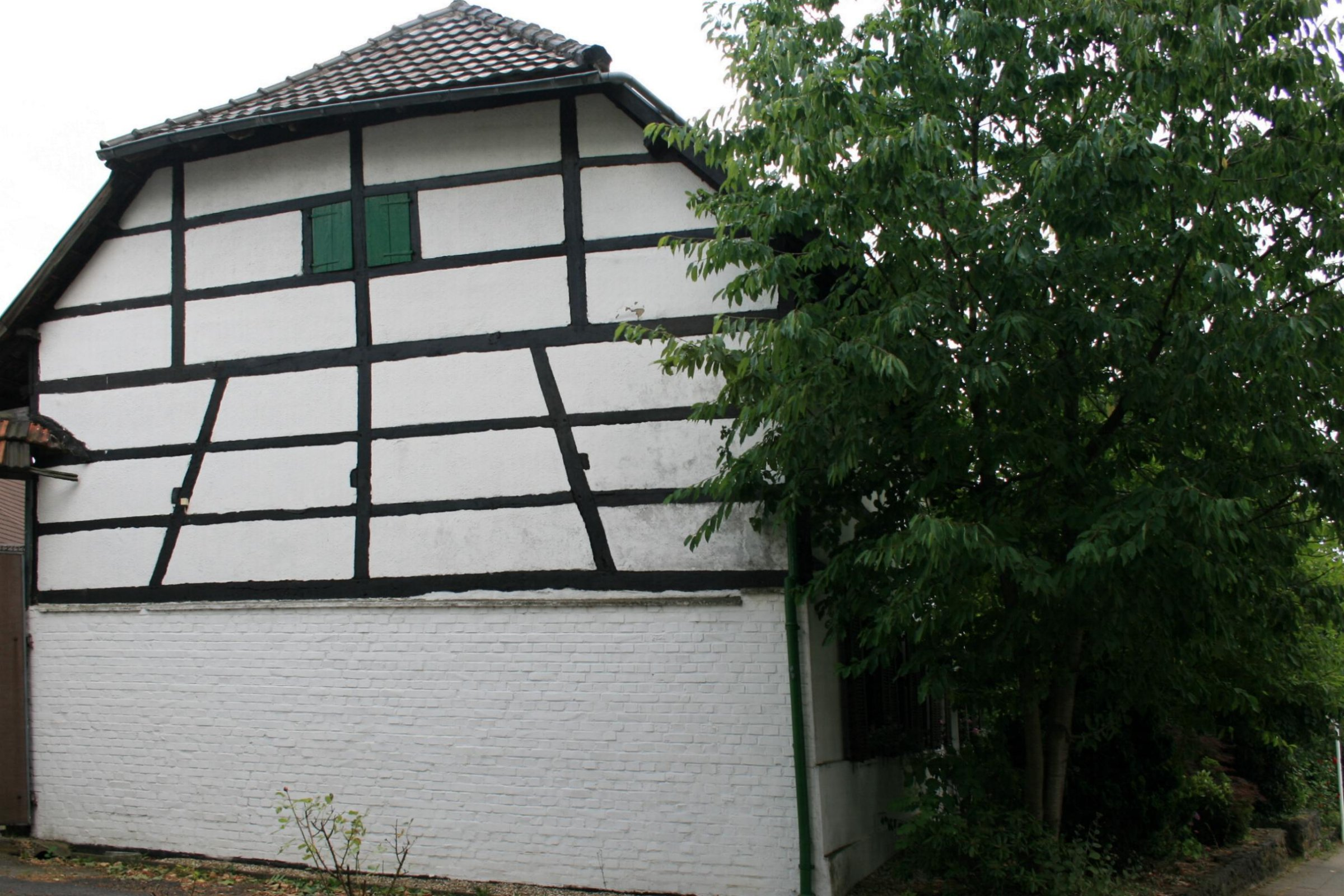 Cultural heritage monument No. A 016 in Mönchengladbach